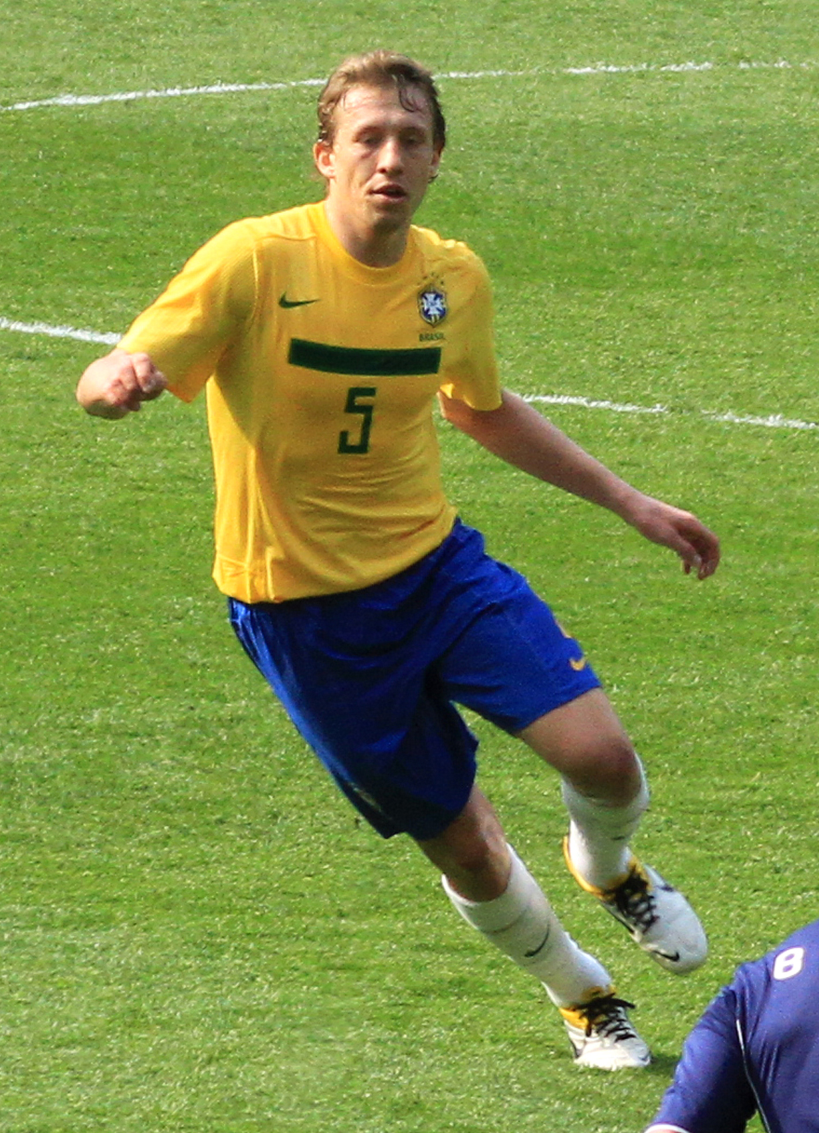 Lucas Leiva during frendly match between Brazil and Scotland